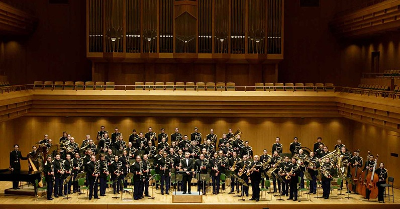 Picture of the orchestre d'harmonie de la Garde Républicaine